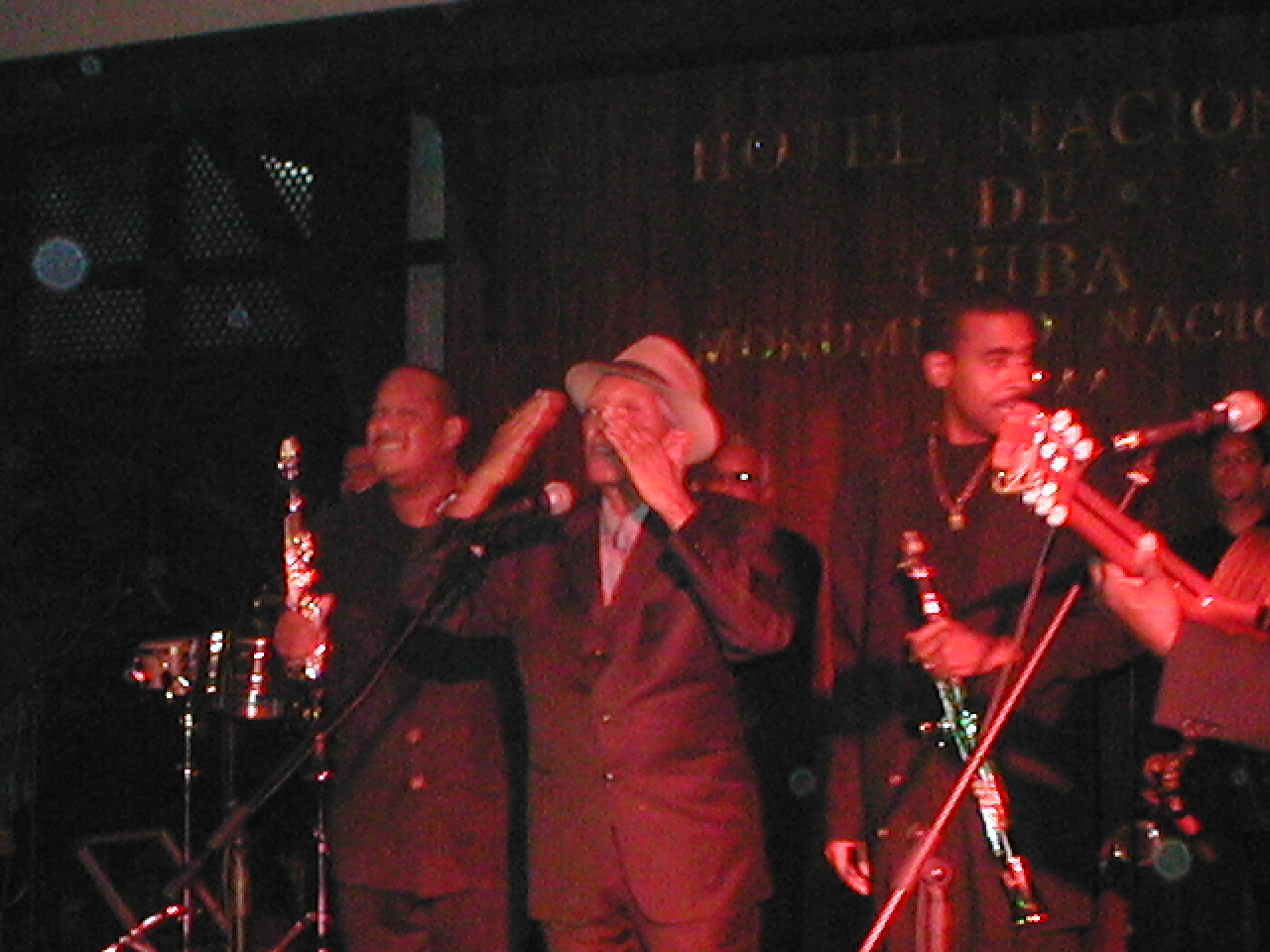 Compay Segundo saying goodbye to a standing ovation, Hotel Nacional de Cuba, Havana.